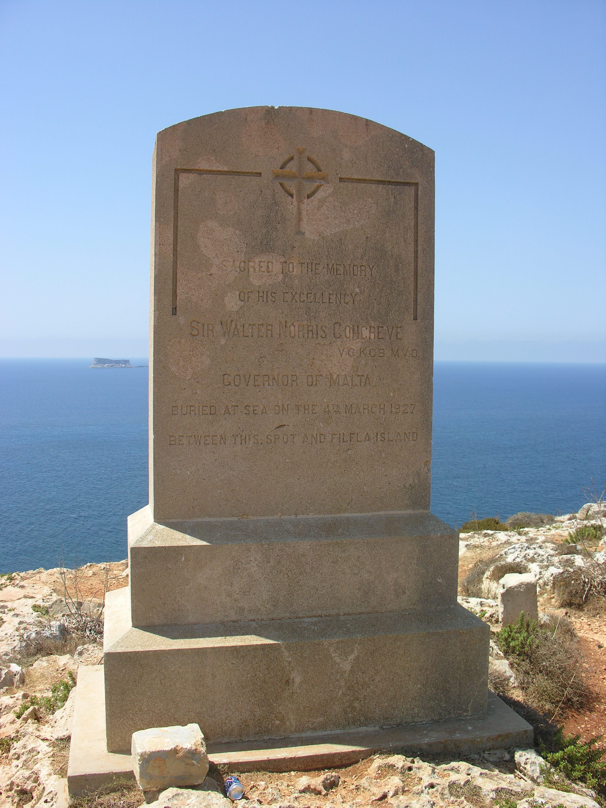 The memorial to Walter Norris Congreve in Malta near the temple of Ħaġar Qim